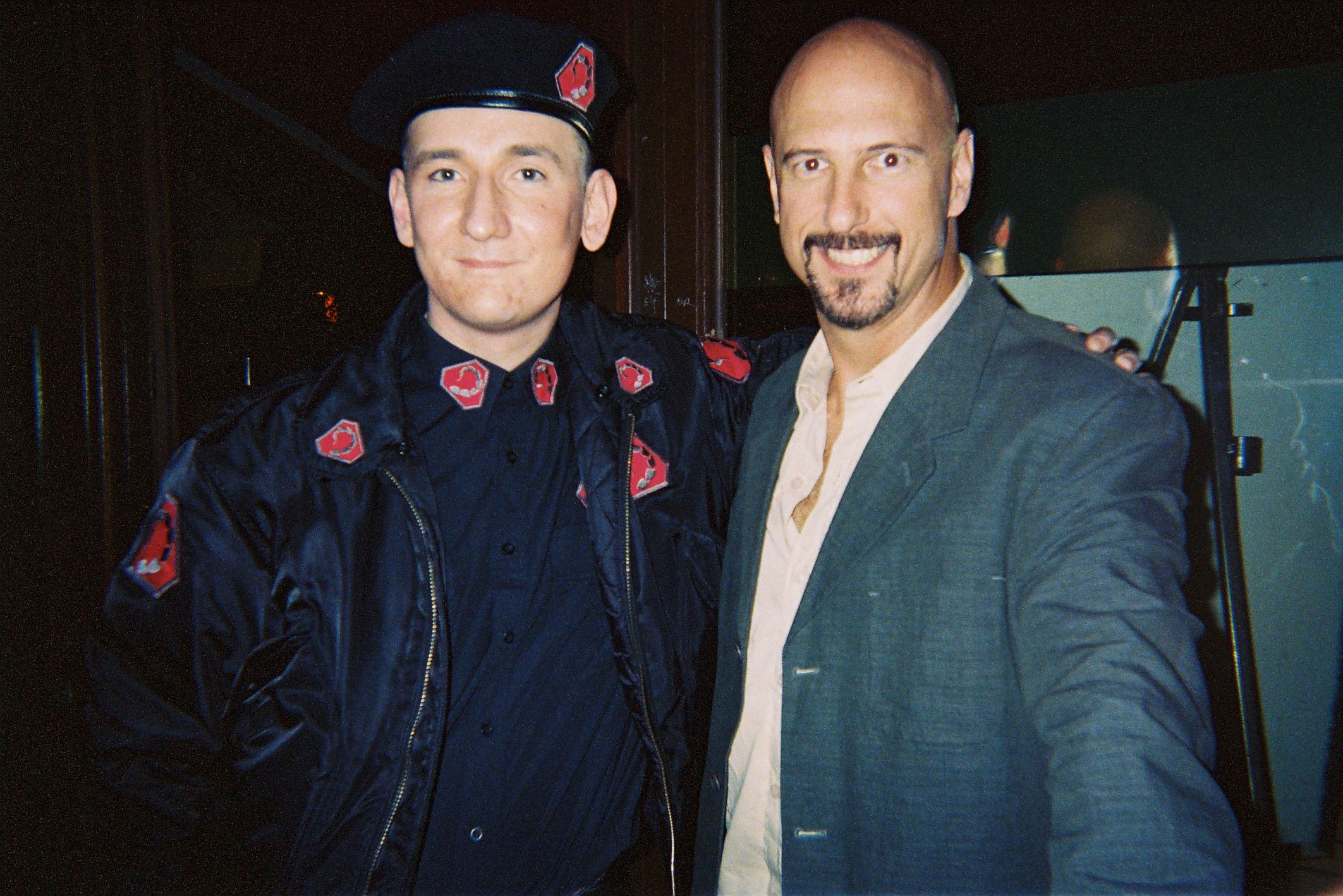 Joseph D. Kucan (right) with a computergamepromoter for Command & Conquer 3: Tiberium Wars at the Games Convention in 2007